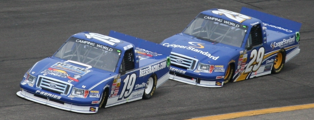 Joey Logano (#19) and Ryan Blaney (#29) compete for Brad Keselowski Racing in the 2013 North Carolina Education Lottery 200 at Rockingham Speedway, April 14 2013.